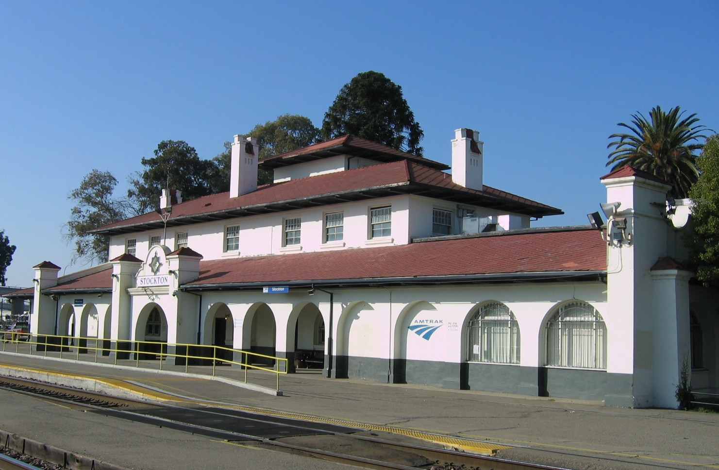 Former Santa Fe station built in 1900 by San Francisco & San Joaquin Valley Railroad and now used by Amtrak. Stockton is unique I believe in that it has 3 passenger train stations (Santa Fe, Western Pacific, and Southern Pacific), all 3 are still standing, and 2 of the 3 are still in use as passenger train stations!